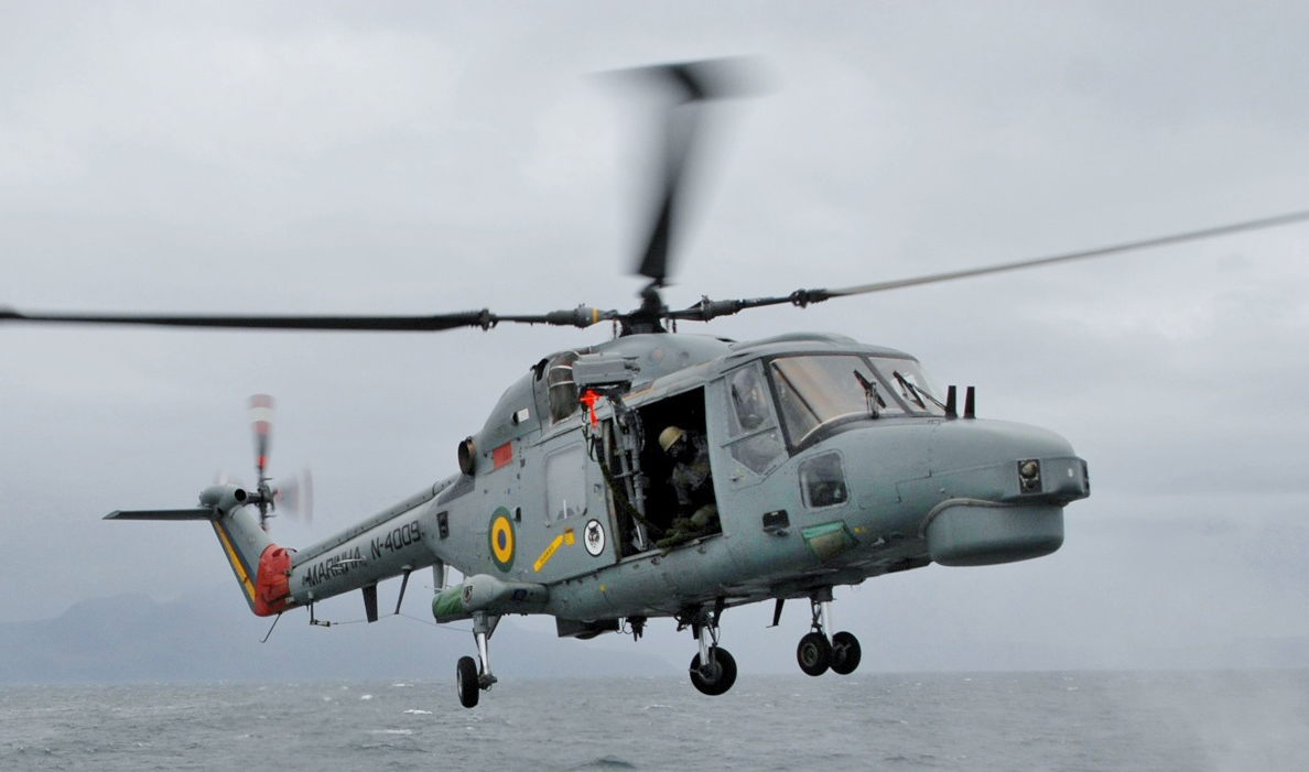 091008-N-1688B-200 ATLANTIC OCEAN (Oct. 8, 2009) A Brazilian navy AH-11A Super Lynx Mk-21A helicopter prepares to drop a boarding team by fast rope during a visit, board, search and seizure (VBSS) exercise with the guided-missile destroyer USS Cole (DDG 67). Cole is participating in Exercise Joint Warrior 09-2, a United Kingdom-led, multinational and multi-warfare exercise designed to improve interoperability between allied navies. (U.S. Navy photo by Mass Communication Specialist 3rd Class Matthew Bookwalter/Released)